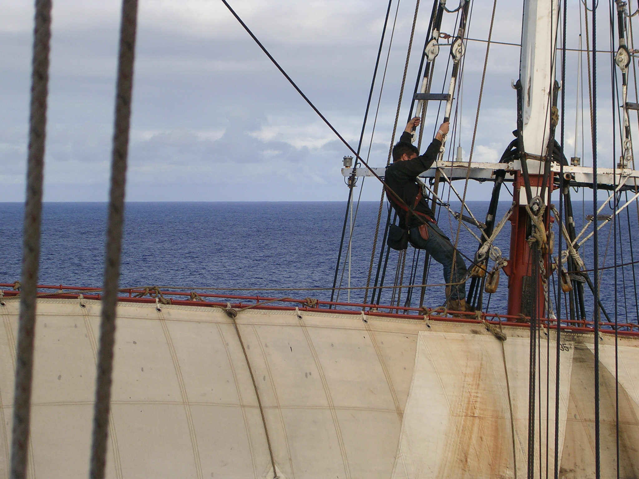 Ship's Rigger (Tom Wade-West) climbing the futtock shrouds past the main crosstrees on the Stavros S Niarchos. He is on his way to help re-rig the main-topgallant yard after it has been brought down on deck for sanding, oiling and repainting. The bag contains the sheaves used in the yardarms to carry the main-royal-sheets. Photo by Pete Verdon, November 2006